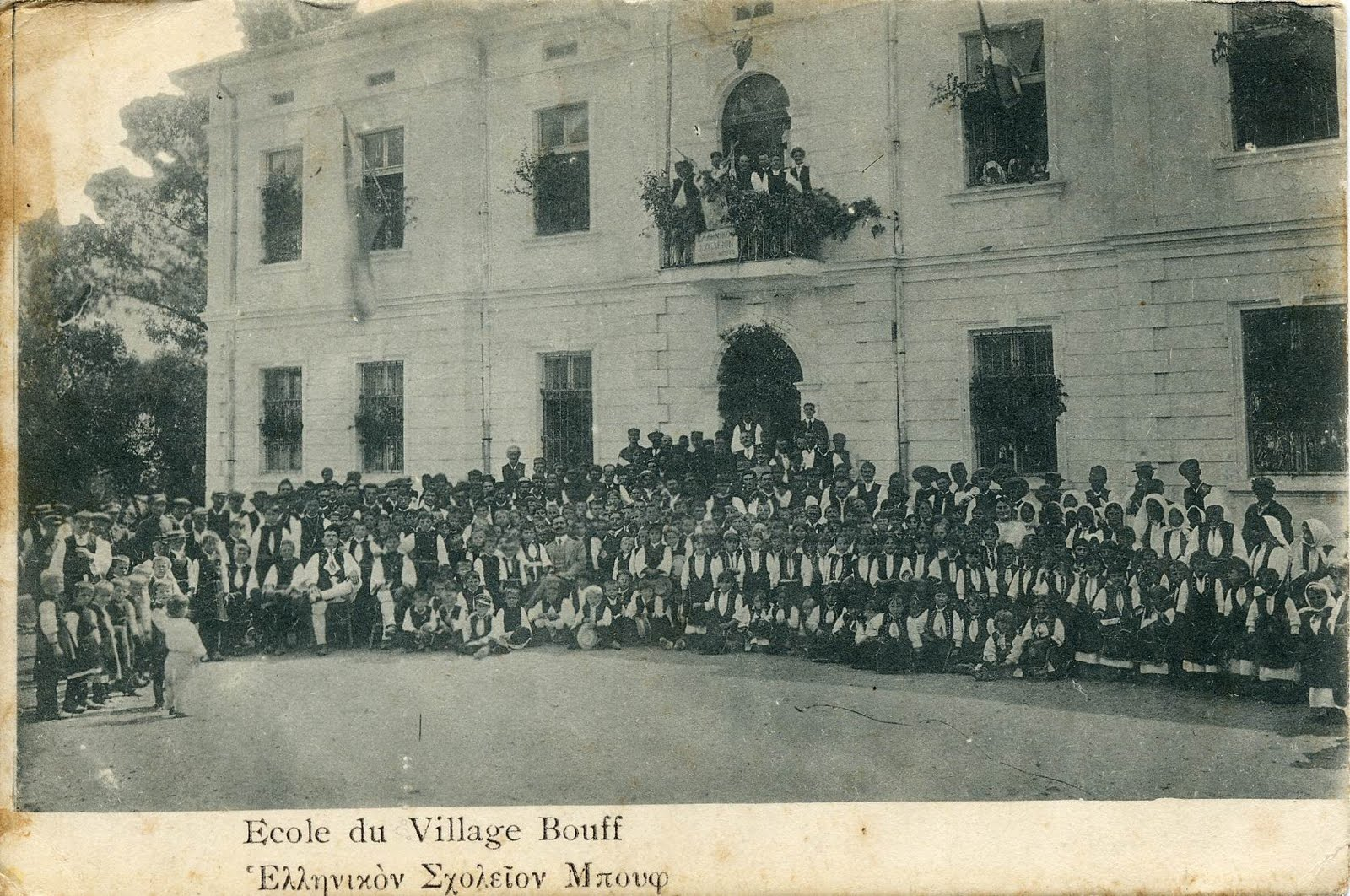 Picture of bulgarian school in village of Buf (today Acritas), Greece